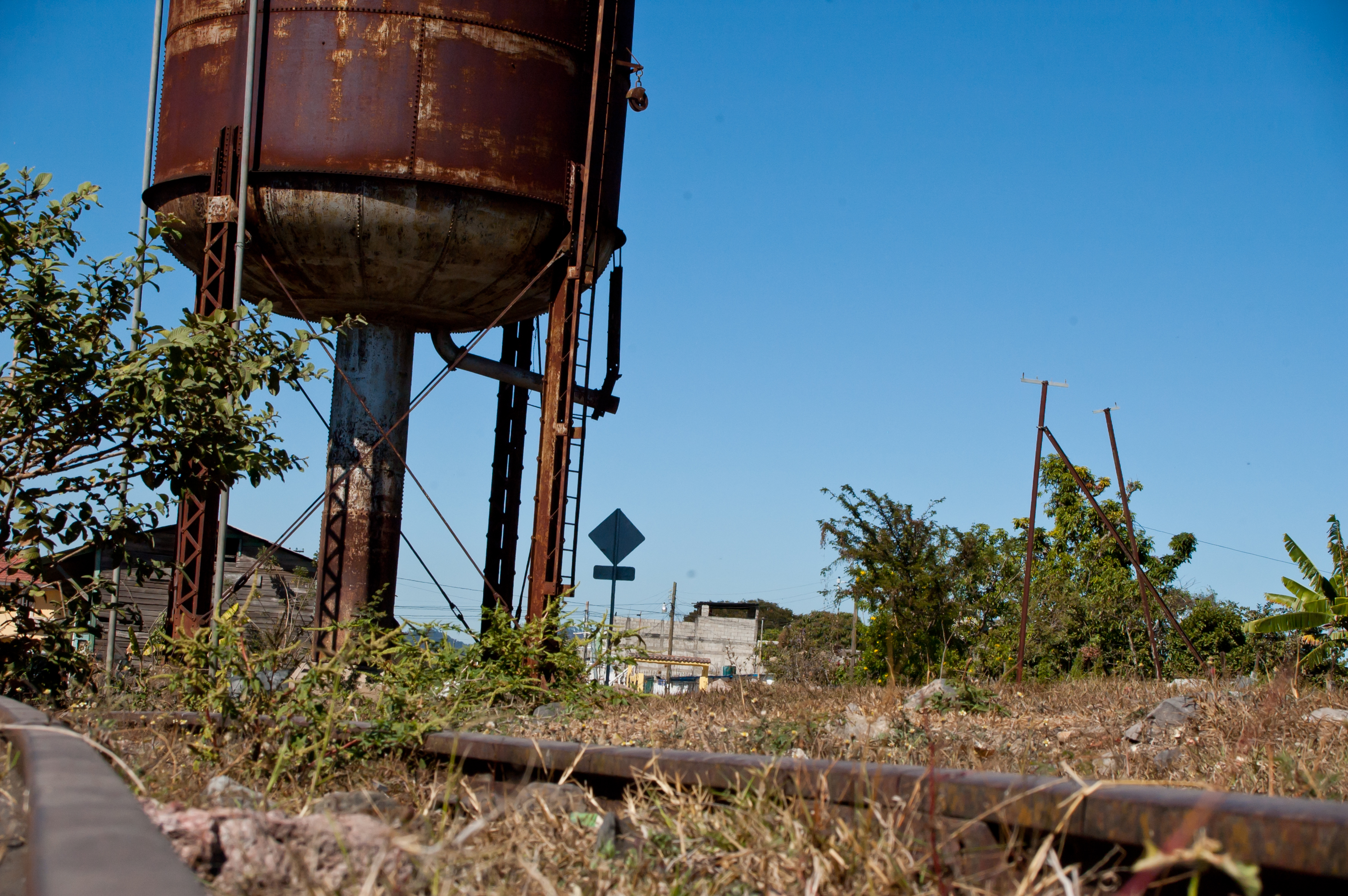 Old train station in Ipala